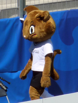 2011 Women's World Cup mascot "Karla Kick" Cropped from File:KarlaKick.jpg